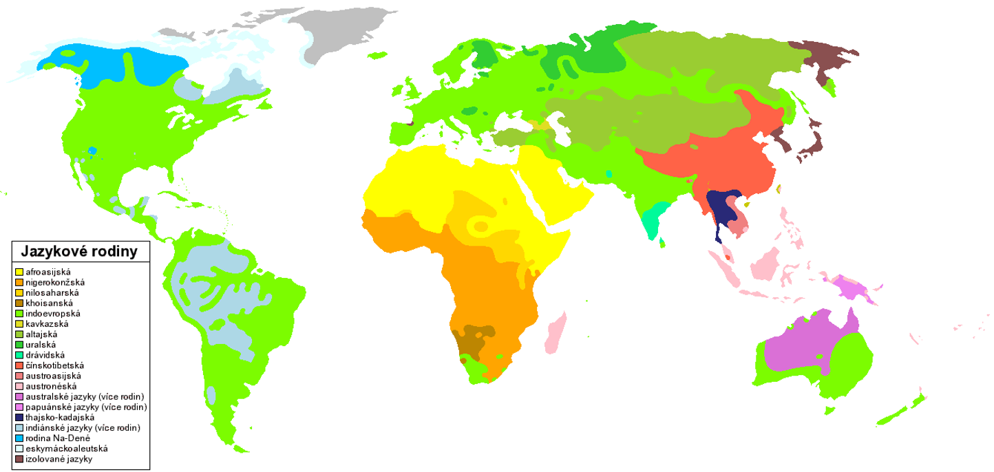 This map shows the world's language families with Czech description.